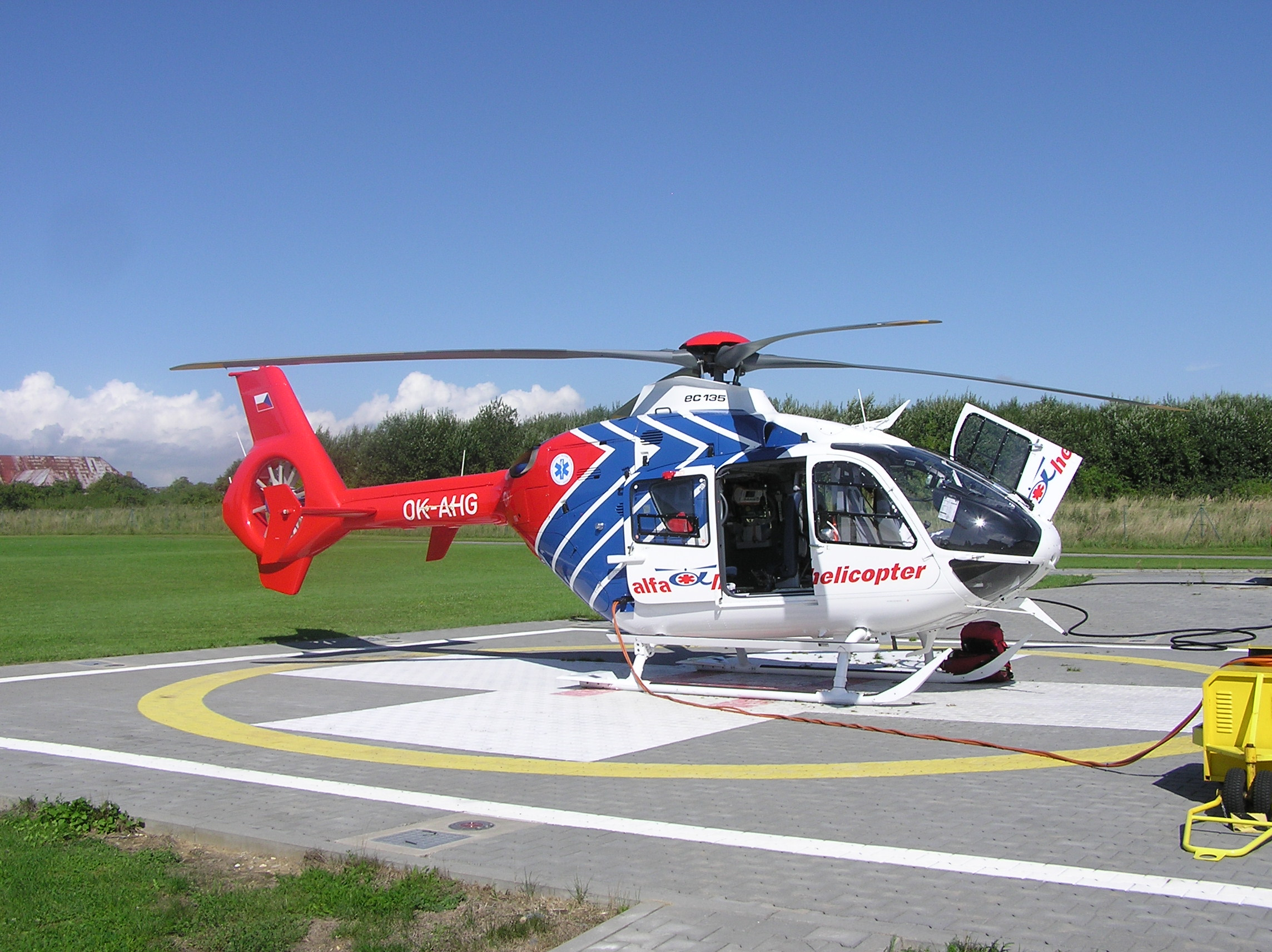 Rescue helicopter of the Olomouc Region in the Czech Republic, Kryštof 09, EC 135 T2+, Olomouc